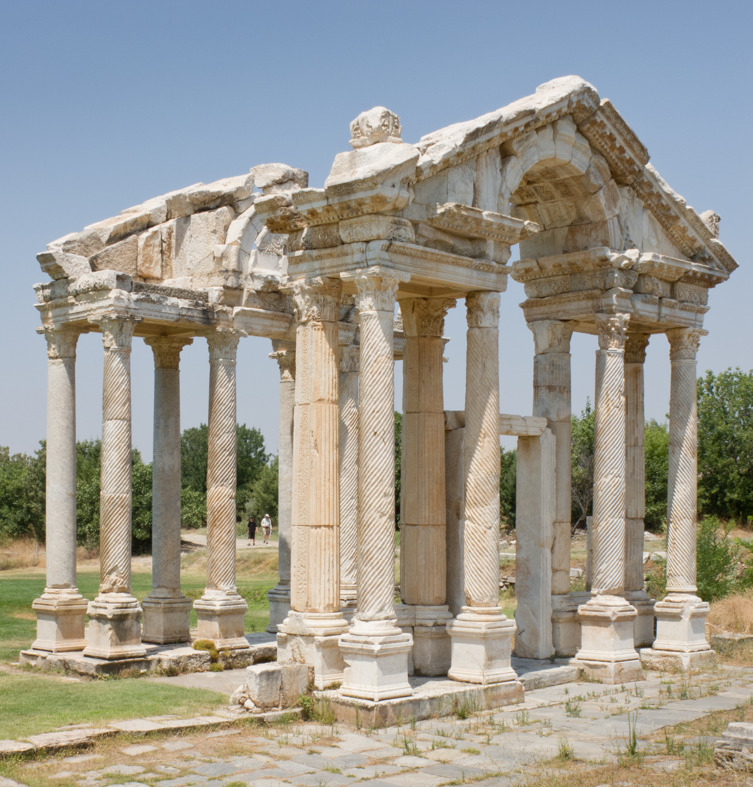 Tetrapylon in Aphrodisias, in modern-day Turkey.